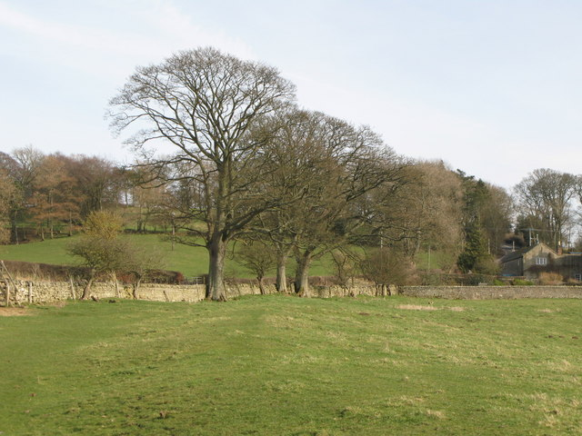 (The line of) Hadrian's Wall near Planetrees Farm